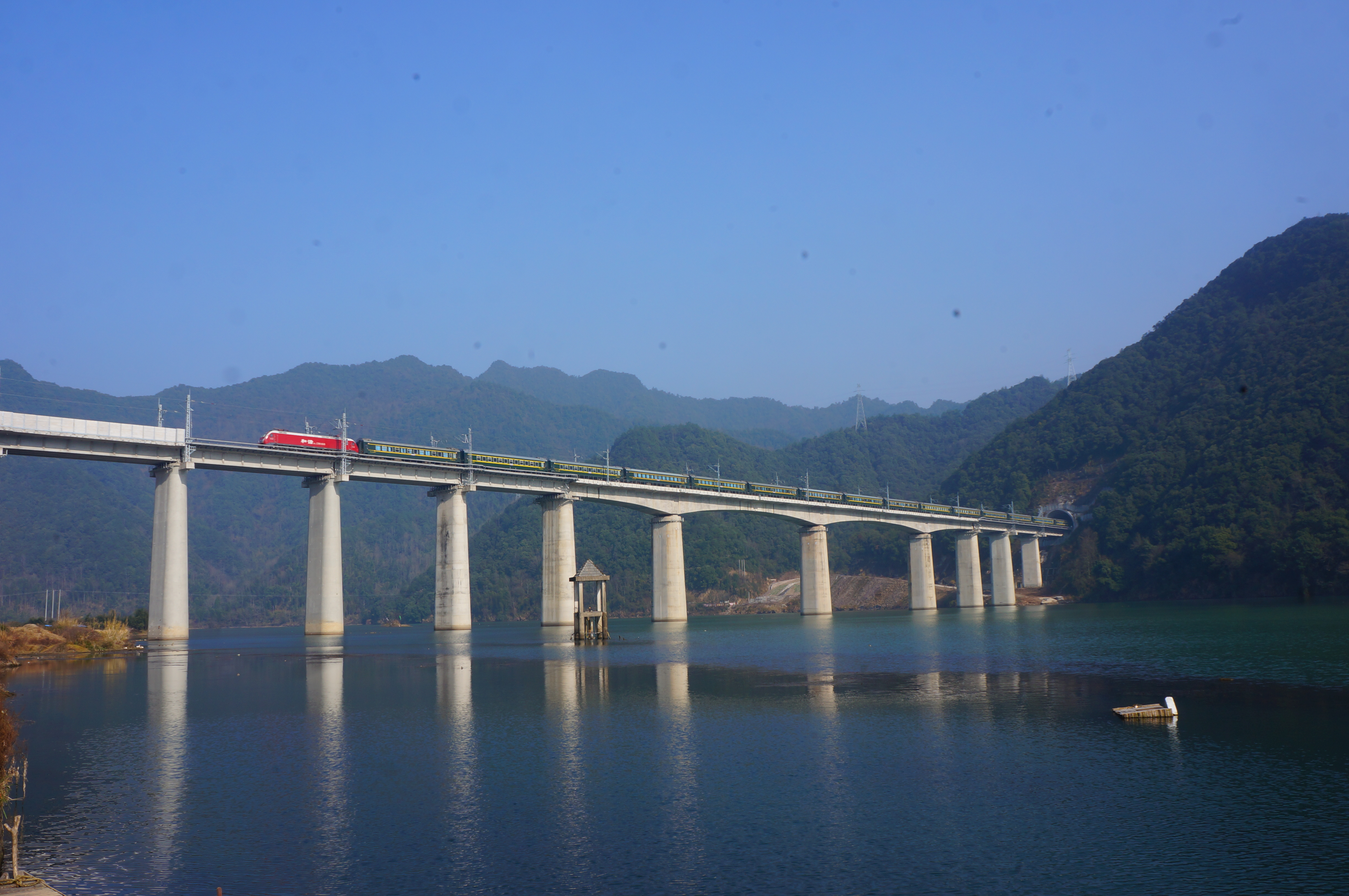 201712 HXD1D hauls K423 (Ningbo to Chengdu) on Changfeng Reservoir Bridge, although its not far away from Kaihua Station, but this spot is located in Changshan County